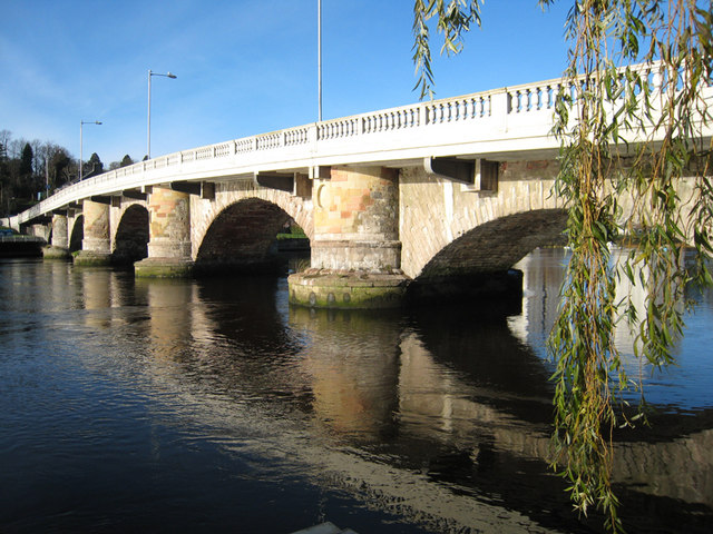 Old Bridge Dumbarton The Old Bridge Dumbarton which has just been refurbished in 2006 In the mid 18th century, the Duke of Argyll was anxious to obtain access to Glasgow from his properties in Argyll and at Rosneath. In 1765 John Brown of Dumbarton built the fine Dumbarton Bridge, (Listed 'B') at the site of a ferry crossing. The bridge, with five segmental arches with rounded cutwaters, resulted in the extension of Dumbarton to West Bridgend.